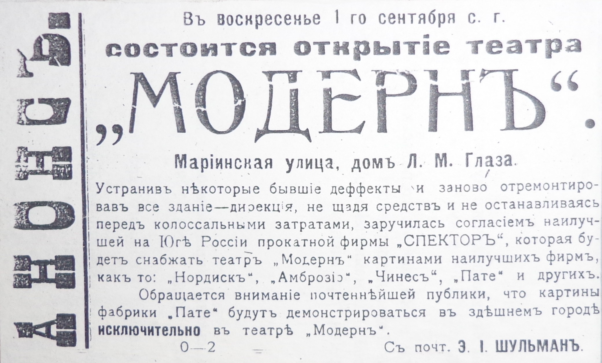 Newspaper announcement on opening of theater Modern in Melitopol, Ukraine